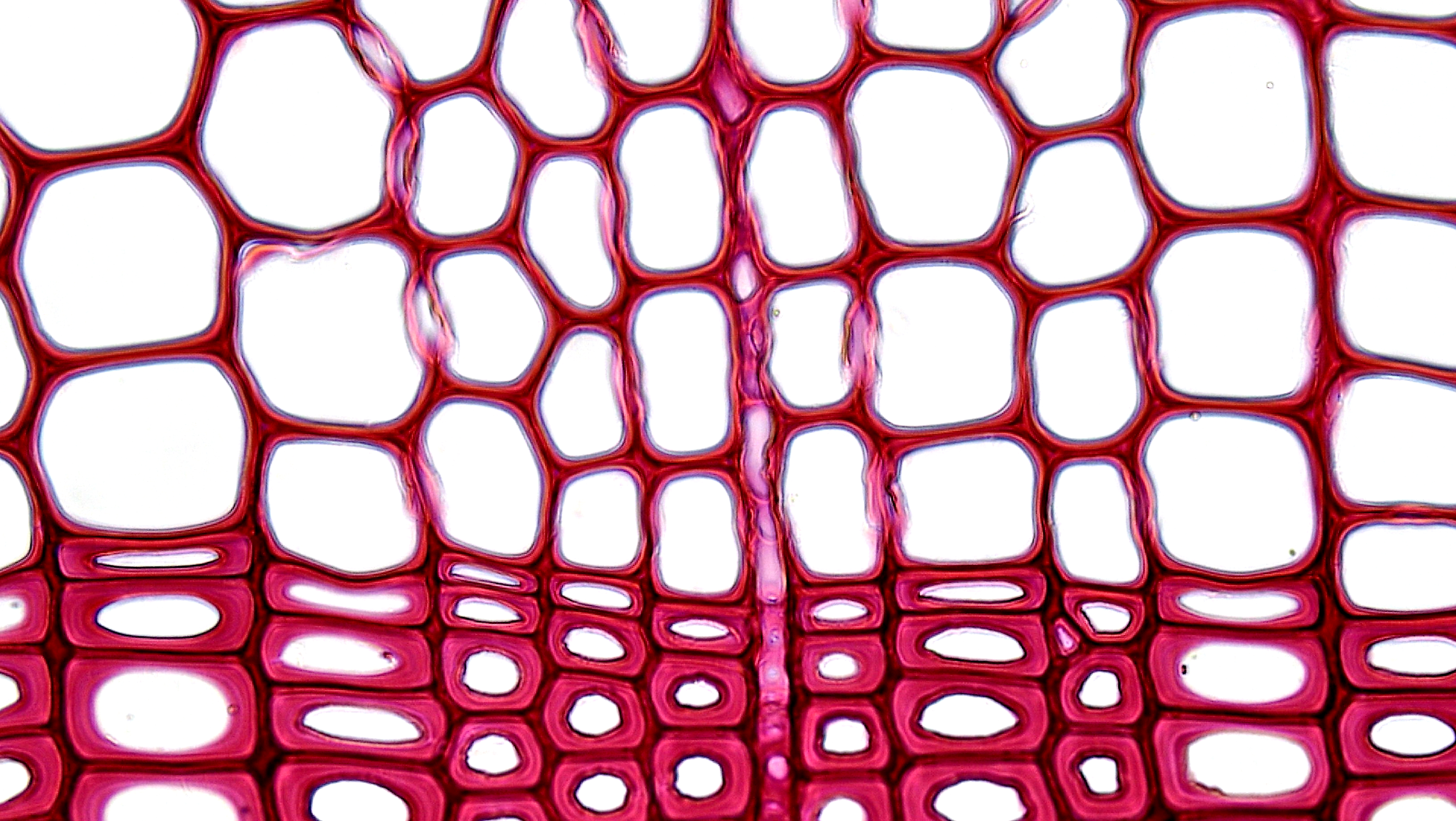 transverse or cross section: Pinus stem magnification: 400x iron-alum hematoxylin and safranin stain Well defined annual rings of large diameter spring wood and smaller diameter autumn wood are composed entirely of narrow, relatively thin walled tracheids. The lumen of many tracheids is crossed by branched trabeculae. Tracheid side walls contain large circular bordered pits that function to move water from tracheid to tracheid while preventing air flow from embolized tracheids. Gymnosperms like Pinus rely entirely on tracheids for water flow and mechanical support. True xylem vessels and wood parenchyma are lacking. While fibers are generally absent older stems may contain some fiber tracheids. Xylem rays are uniseriate and composed of clear, thin walled parenchyma cells.